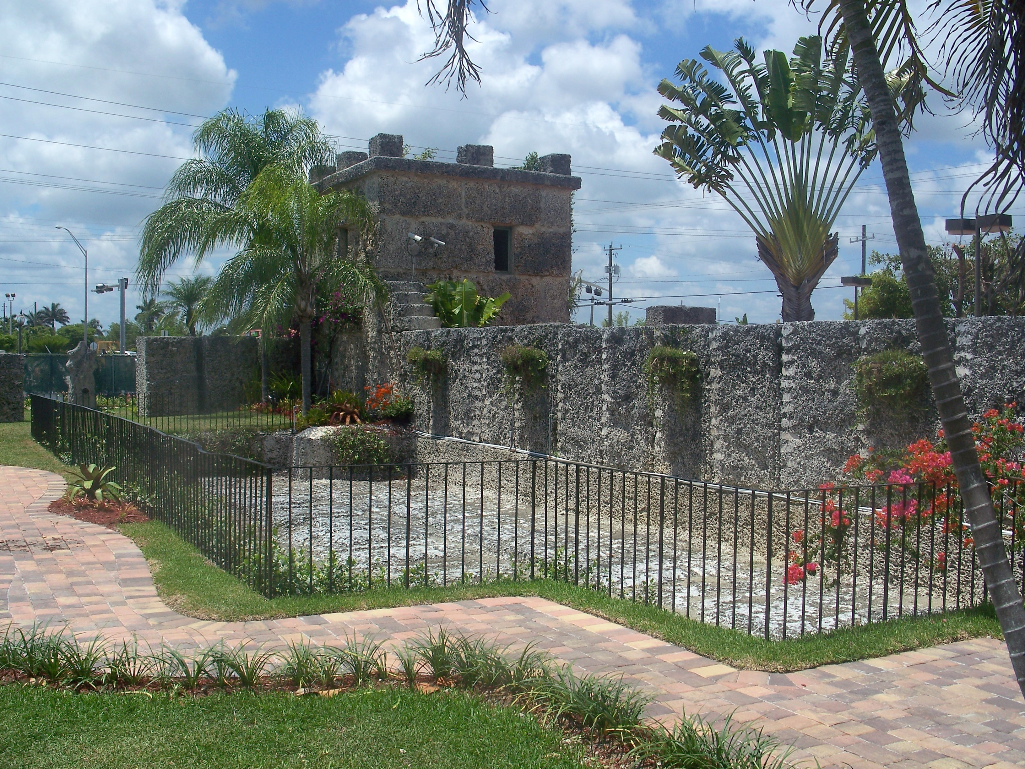 Homestead, Florida: Coral Castle: Quarry